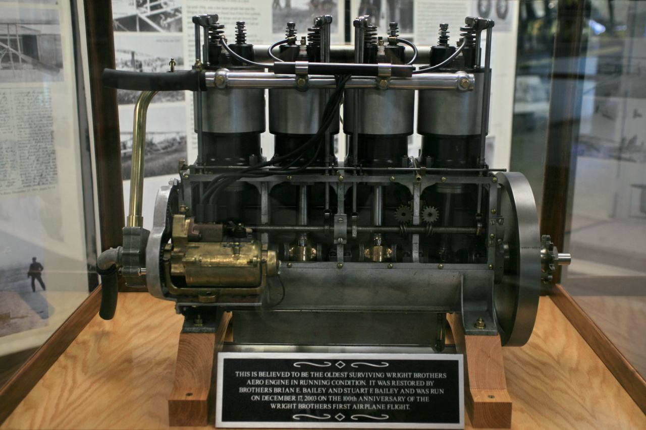 This engine was built about 1910 and is believed to be the oldest surviving Wright Brothers aero engine in running condition. It was run on December 17, 2003 on the 100th anniversary of the Wright Brothers first airplane flight.